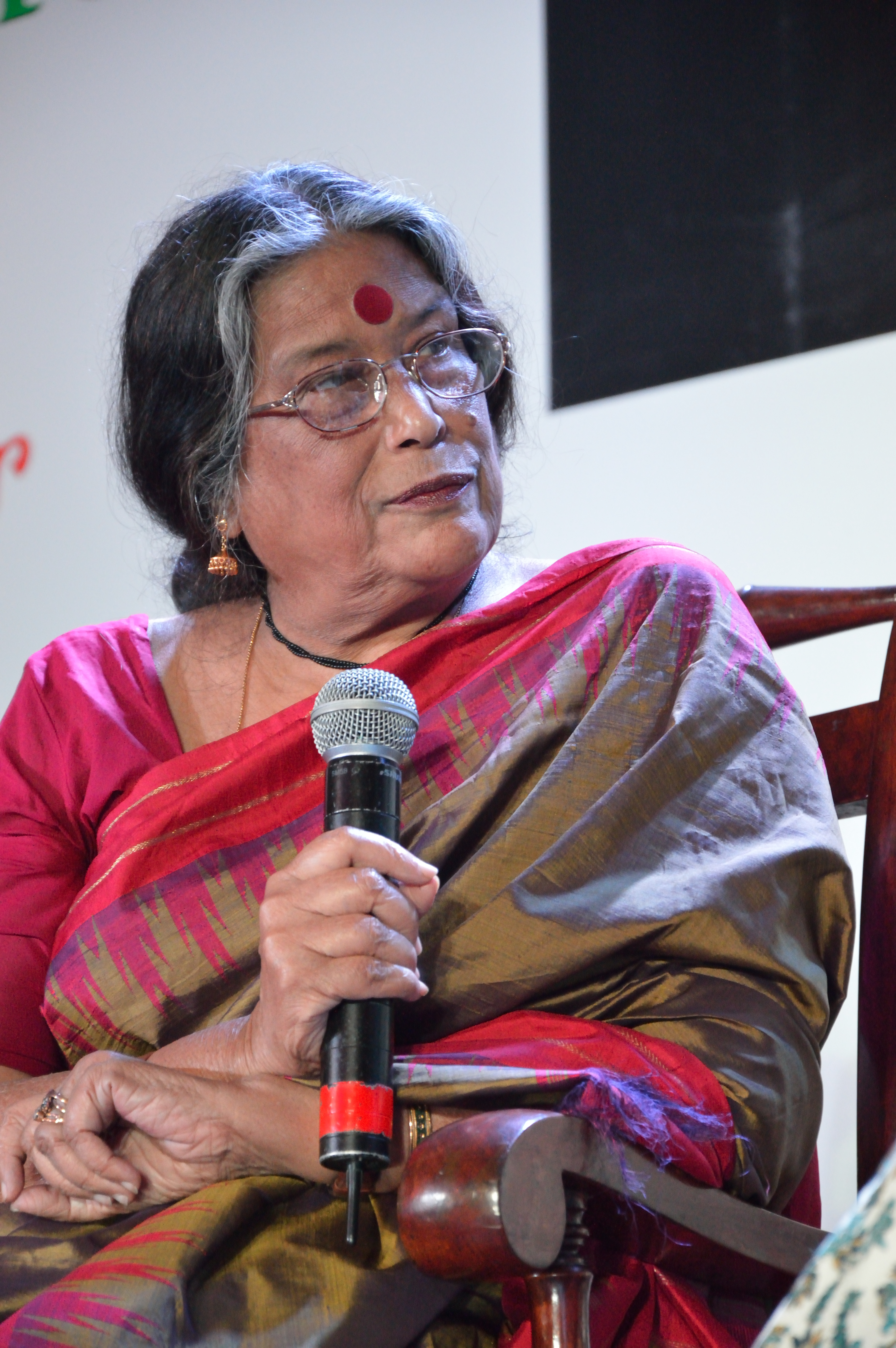 Nabaneeta Deb Sen is one of the most versatile female Bengali writers in India today. She has published more than 80 books in Bengali, which include novels, short stories, plays, literary criticism, personal essays, travelogues, humour writing, translations and children’s literature. Her first collection of poems, Pratham Pratyay, was published in 1959. Ami Anupam, her first novel, was published in 1976. Some of her other well-known works are Bama-bodhini, Nati Nabanita, Srestha Kabita and Sita Theke Suru. She is widely respected in the academia as well, and has a Masters degree from Harvard University and a PhD from Indiana University. She has received many awards including the Celli Award from the Rockefeller Foundation and the Sahitya Akademi Award. Deb Sen lives in Kolkata and has three daughters, two with former husband Amartya Sen. This shot was taken during the annual 'Kolkata Literary Meet 2013' was a part of the 'International Kolkata Book Fair 2013' held at the Milan Mela ground. It is a five day talk and interaction with general public of renowned persons from India and abroad.